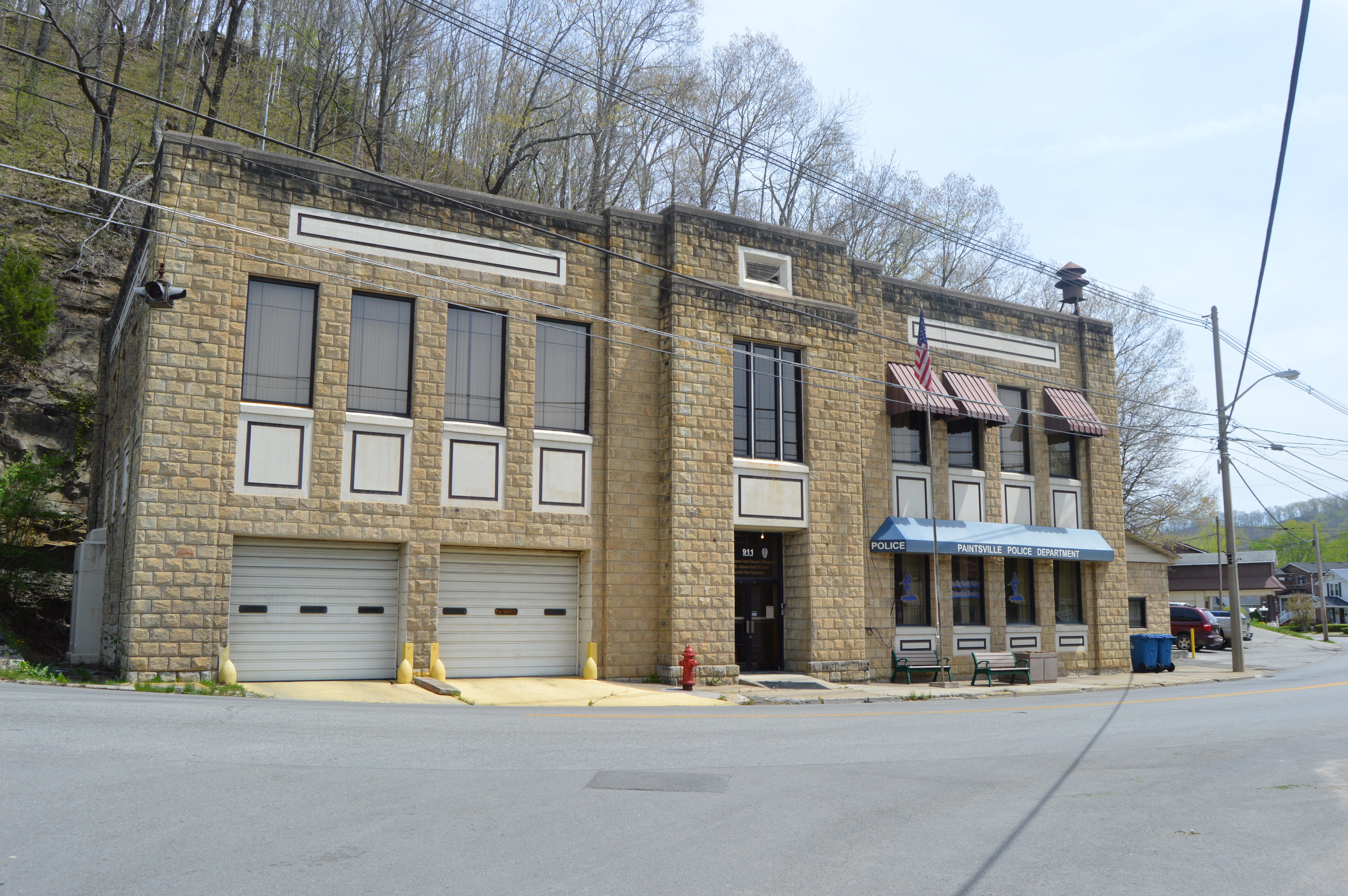 Front and northern end of the Paintsville City Hall, located at the junction of Euclid Avenue (Kentucky Route 40) with Second and Margaret Heights streets in Paintsville, Kentucky, United States. Built in 1939, it is listed on the National Register of Historic Places.